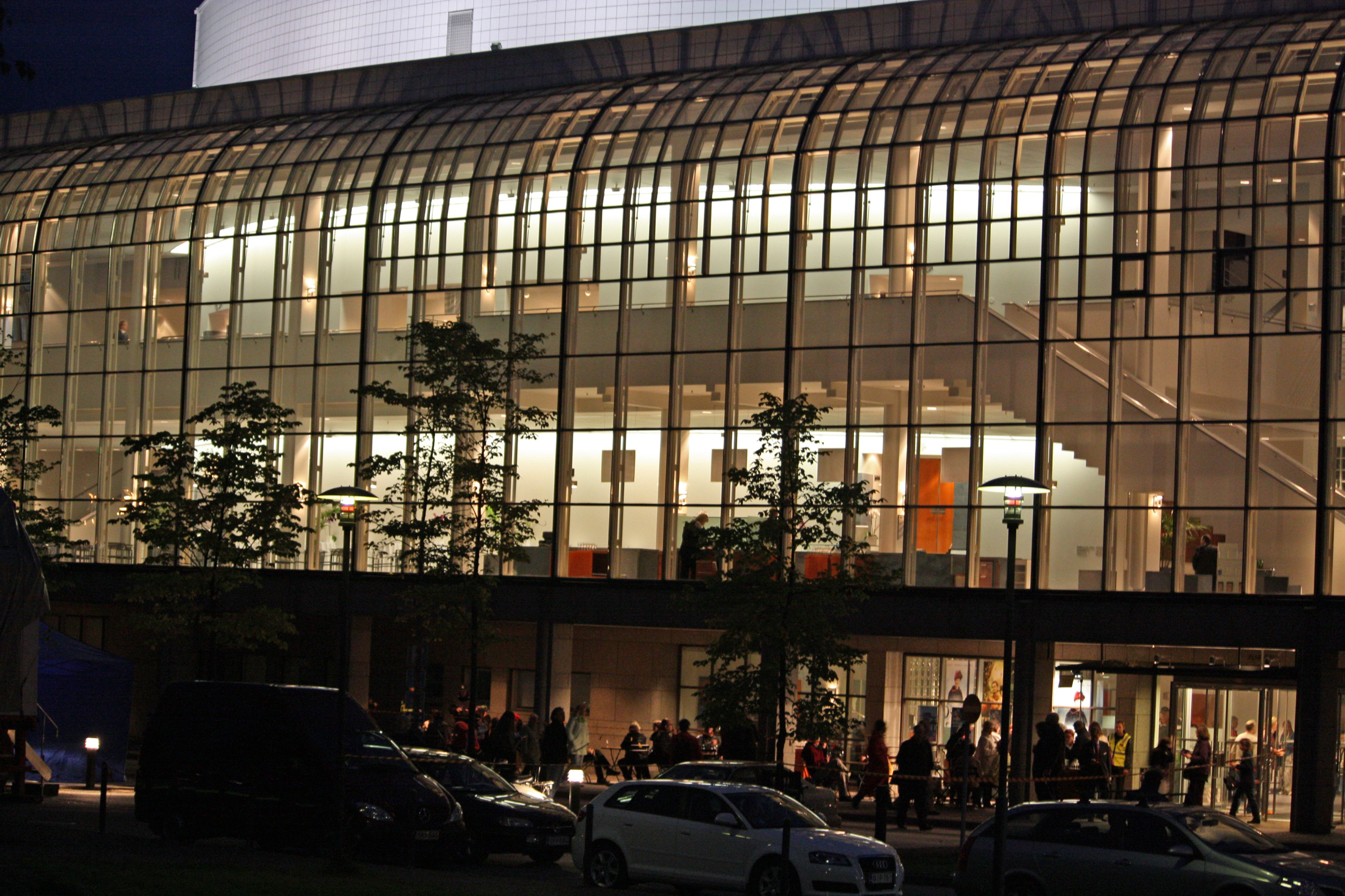 The Night of the Arts in Helsinki 2010 at the Opera House.